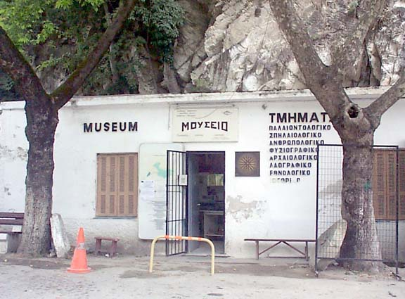 Outside View, image from the Nature and Folklore Museum, Loutra, Almopia, Central Macedonia, Greece